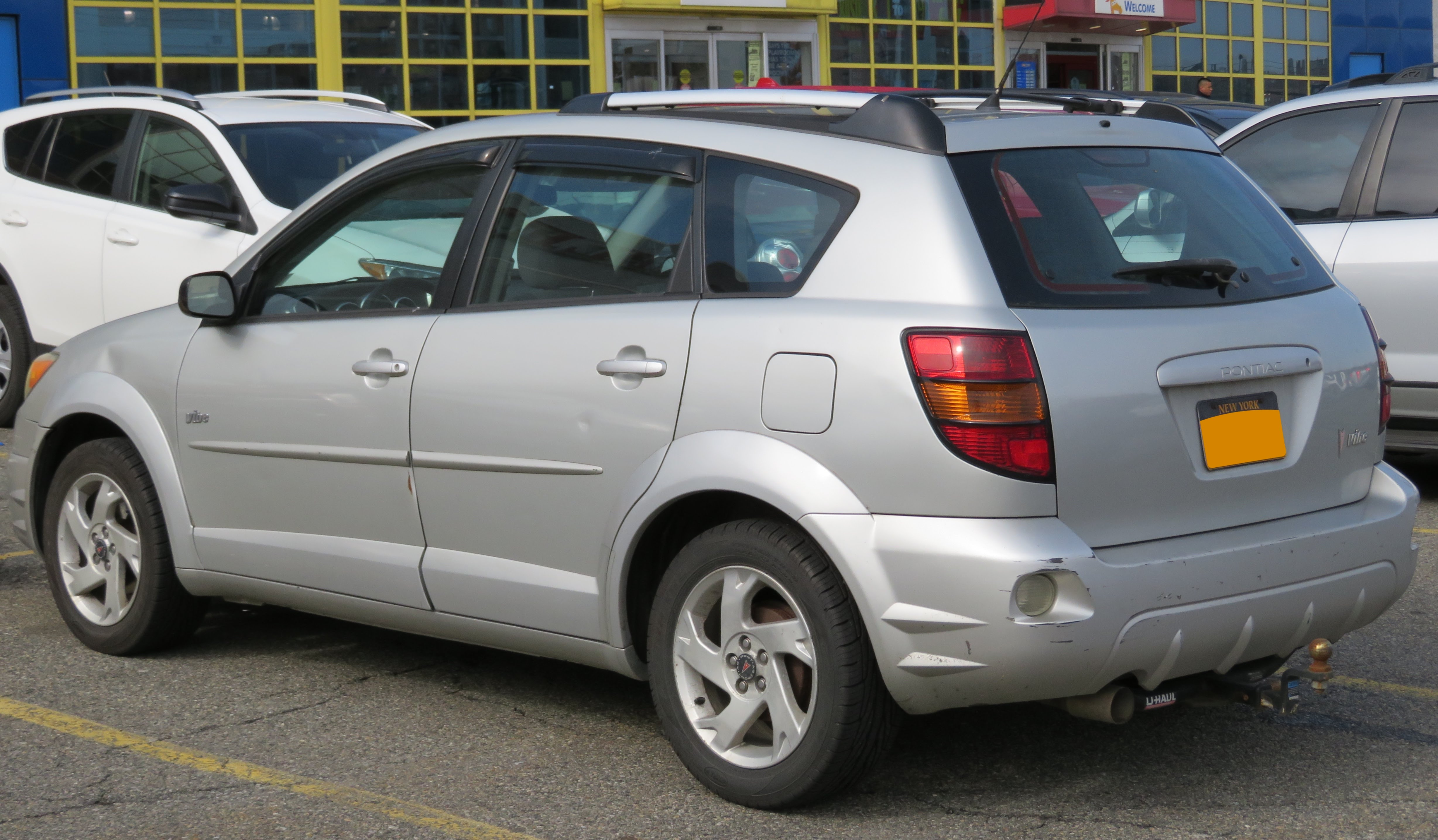 In Queens, New York